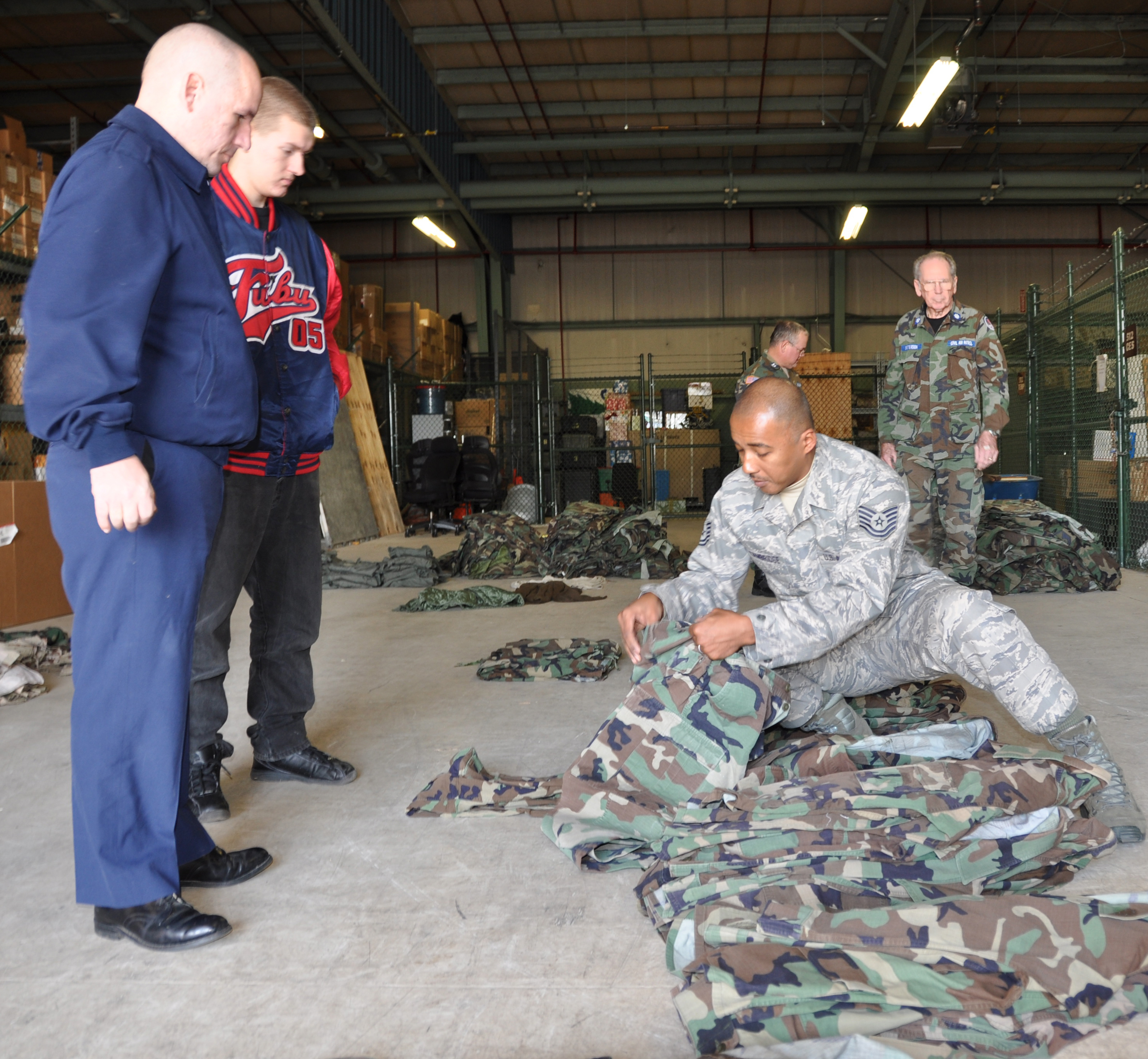 Tech. Sgt. Timmathy Cambridge (right), 512th Maintenance Operations Flight education and training manager, helps sort donated battle dress uniforms in a hangar on Dover Air Force Base, Del., Jan. 8, 2012, when Civil Air Patrol members Capt. Ted Petroulis (left) and Master Sgt. Brandon came to pick-up the uniforms, collected through a wing drive for non-unit funded BDUs. The CAP is still authorized to wear BDUs after the BDU phase-out date of Nov. 1, 2011. About 125 sets of BDUs were donated to the Delaware Air National Guard Cadet Squadron, New Castle, Del, and the 904th Composite Squadron, Quakertown, Pa. (U.S. Air Force photo by Master Sgt. Veronica Aceveda)